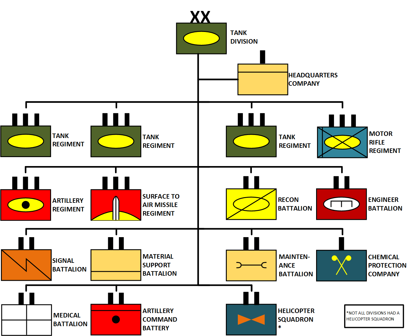 Order of battle graphic showing organization of a Soviet Tank Division circa 1991.